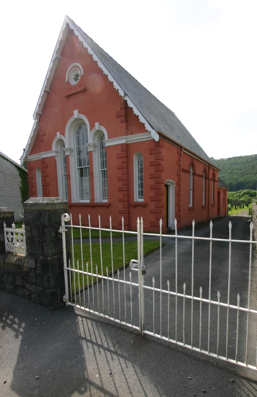 Cemmaes (Wales) Calvinistic Methodist Church